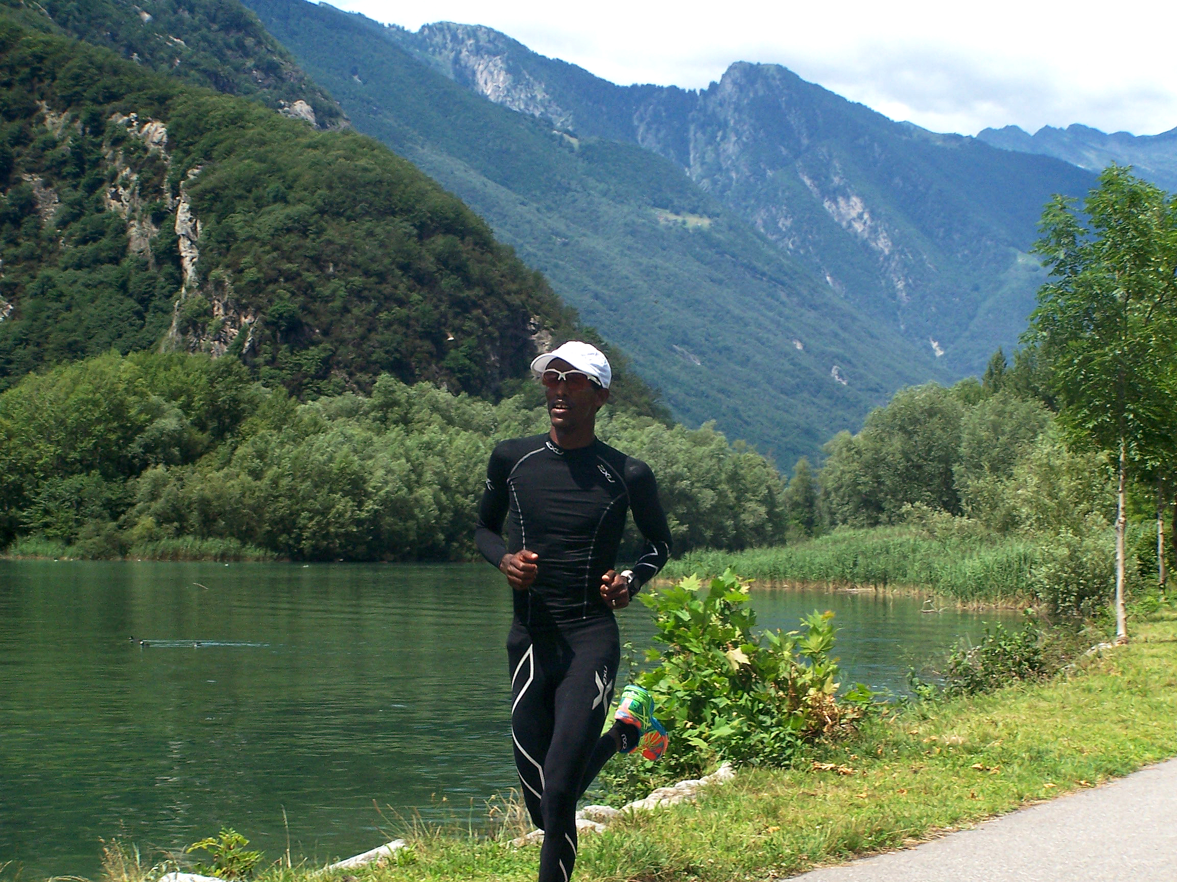 Somali long distance runner Mustafa Mohamed training in St. Moritz.